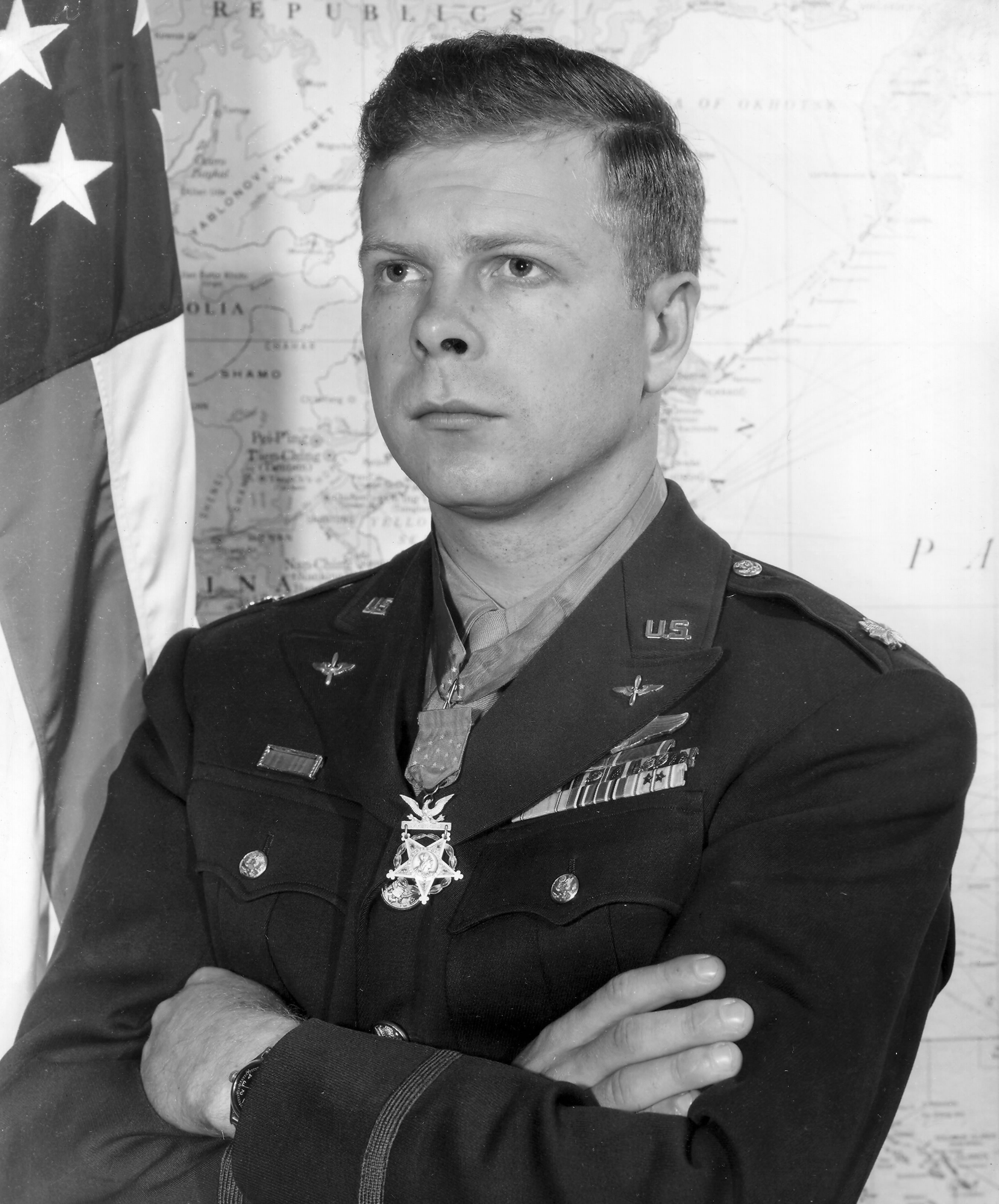 Richard Bong in the 1940s